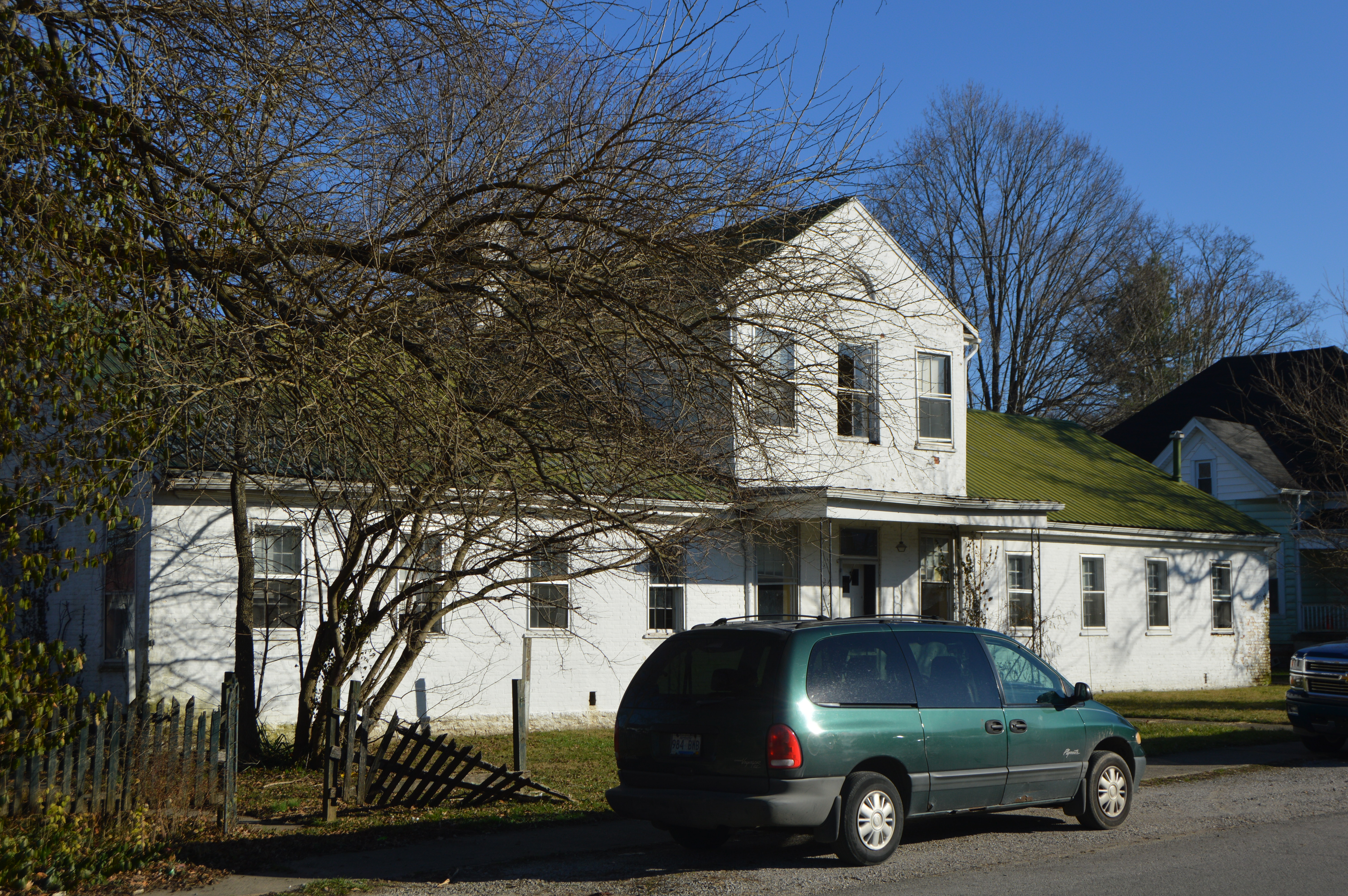 Front of Echo Hall, formerly a part of the campus of Augusta College, located at 205 Frankfort Street in Augusta, Kentucky, United States. Built in 1825, it and West Hall on Bracken Street are the last remaining components of the college campus, and they have been listed together on the National Register of Historic Places.